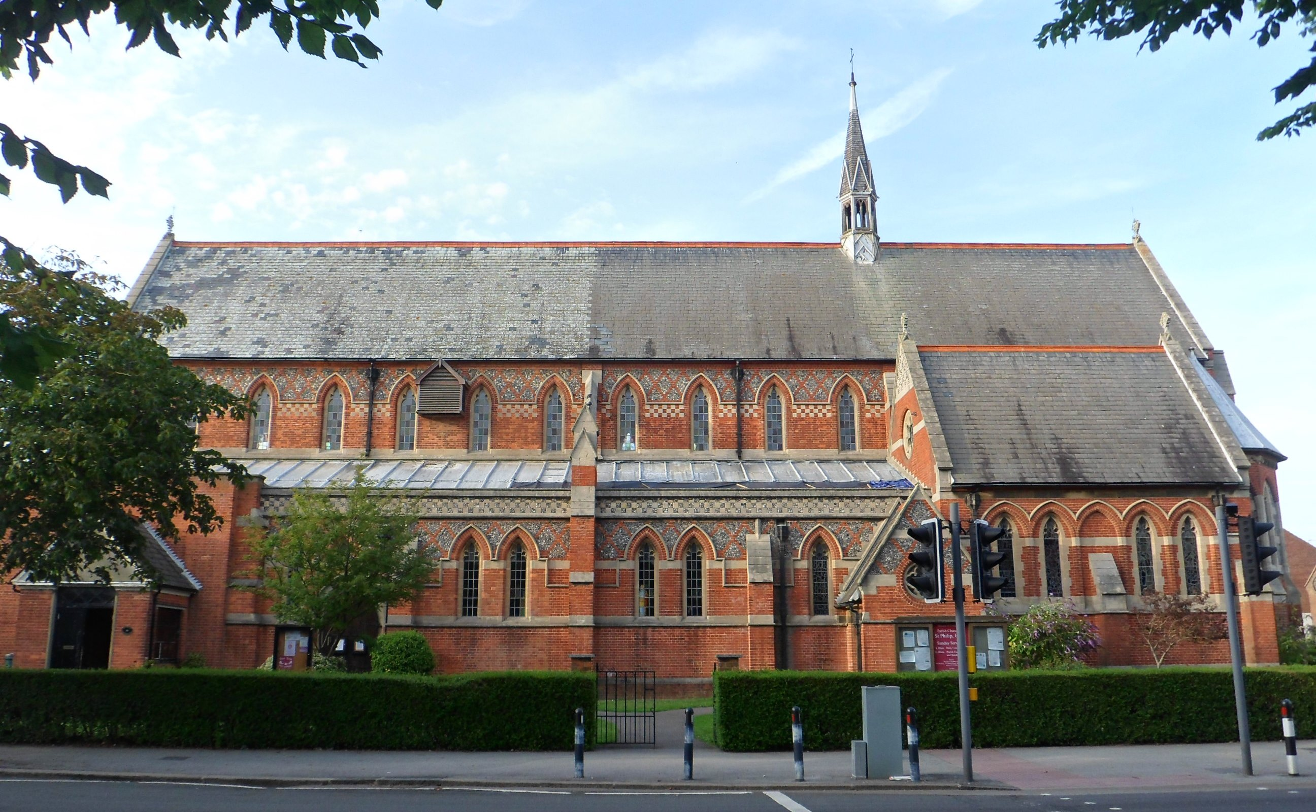 St Philip's parish church, New Church Road, Hove, East Sussex, seen from the south